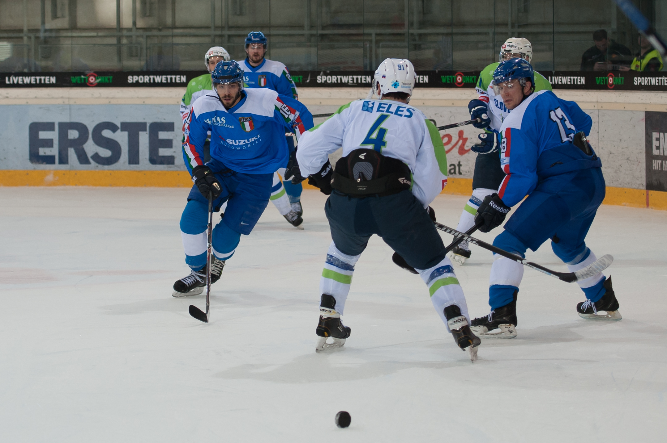 Euro Ice Hockey Challenge Vienna, February 7, 2015, Italy vs. Slovenia